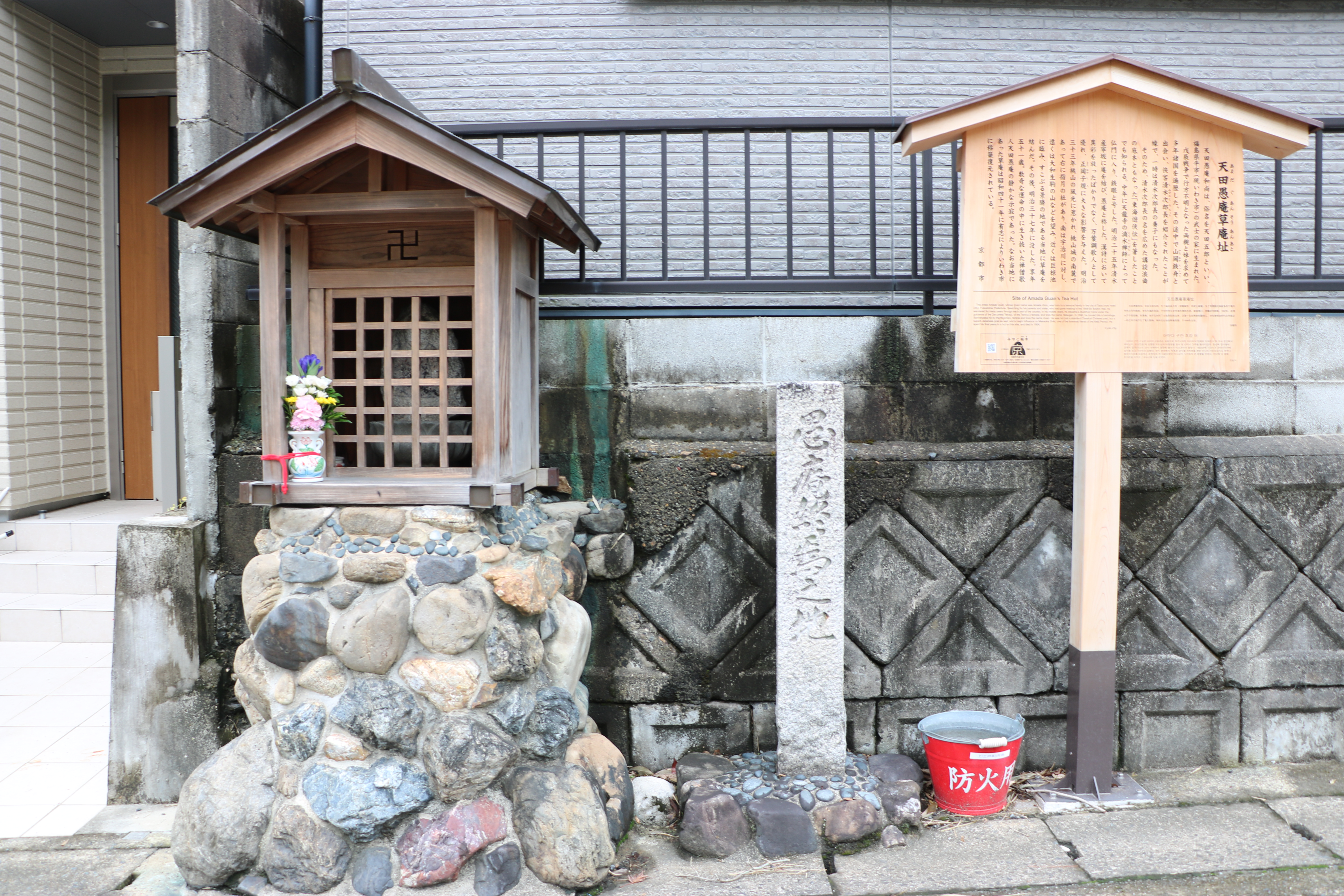 Amada Guan stone monument of death place